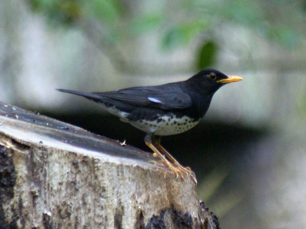 Turdus cardis